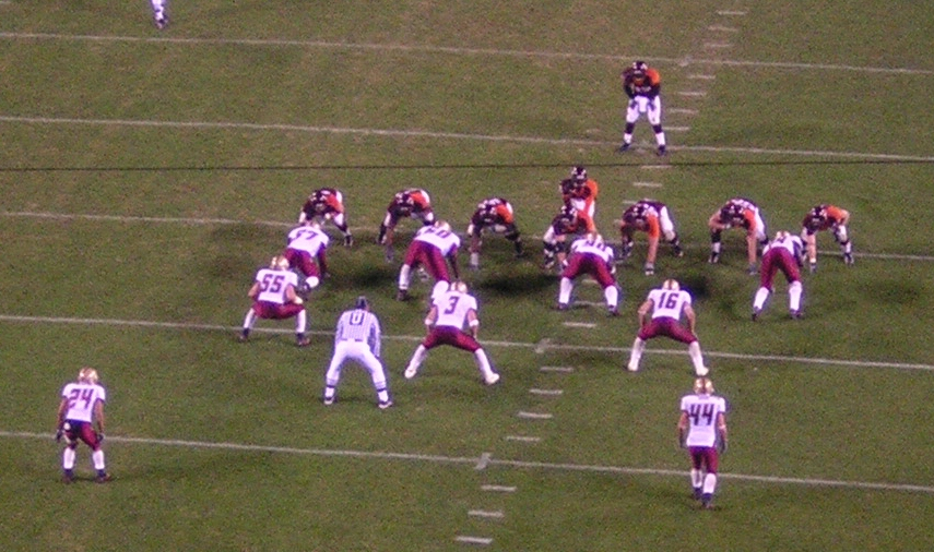 Virginia Tech prepares to take a snap against Boston College at Lane Stadium.